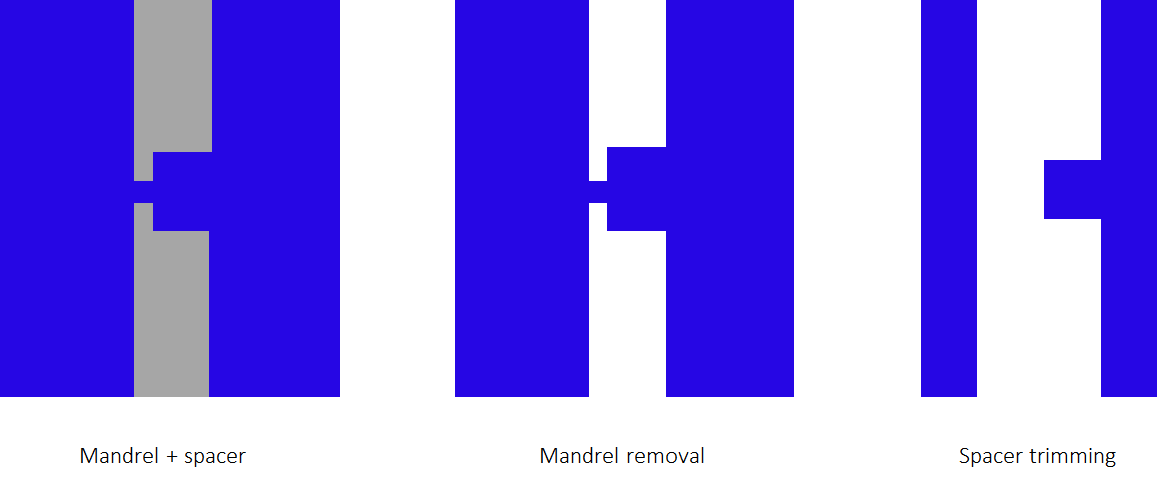 Shows the spacer trimmed to smaller width (e.g., by plasma) after spacer is etched and mandrel is removed. References US Patent 4776922, assigned to IBM. C. Kodama et al., IEEE Trans. CAD Integ. Circ. and Syst., vol. 34, 753 (2015). US Patent 9048292, assigned to Micron.